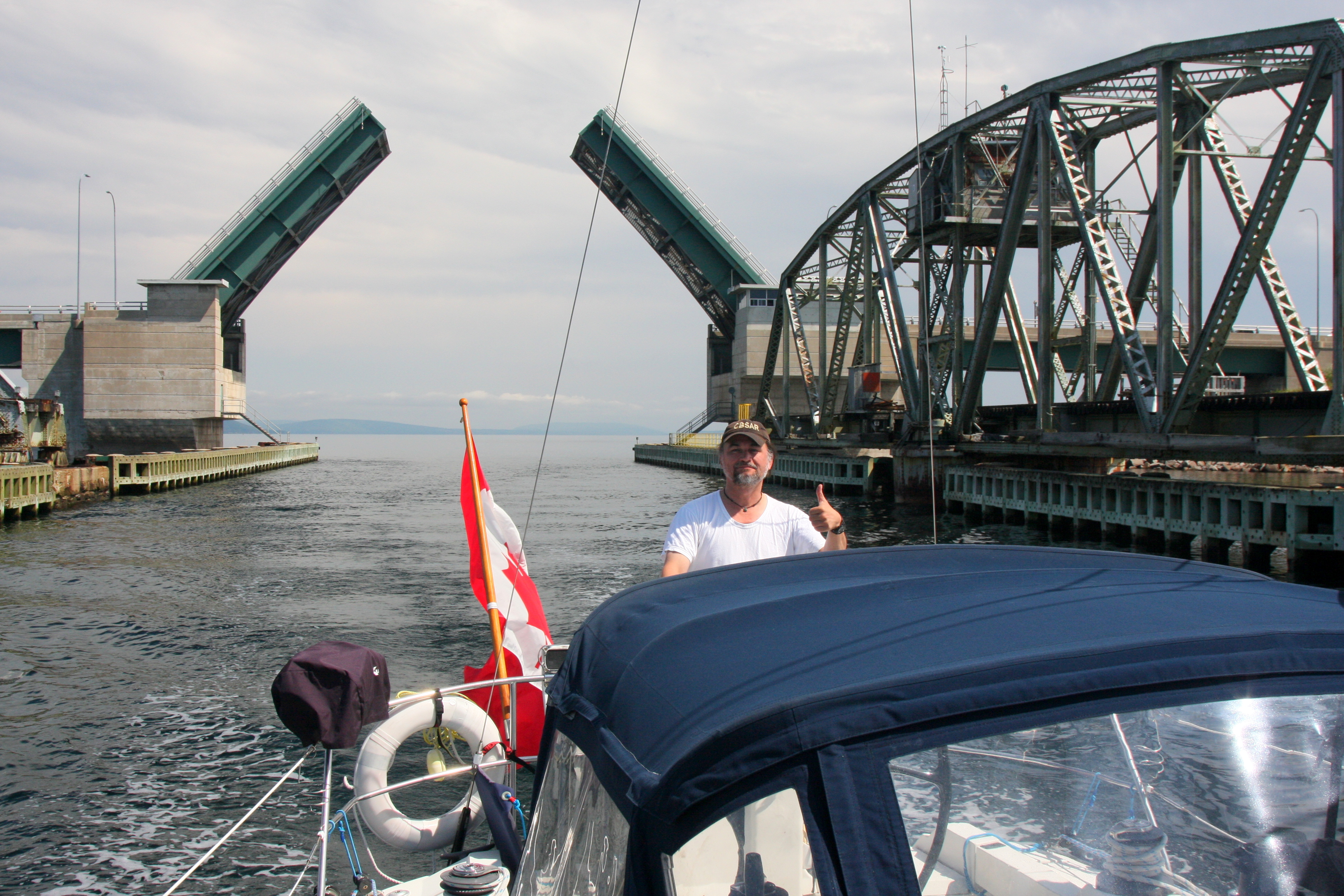 The Barra Strait Bridge is a Canadian road bridge, and the Grand Narrows Bridge is a Canadian railway bridge, both side by side, crossing between Victoria County, Nova Scotia, and Cape Breton County. At 516.33 m (1,694 ft), Grand Narrows is the longest railroad bridge in the province. The rail bridge incorporates a swing span, and the road bridge a double leaf bascule, both inline at their eastern end to permit the continued passage of marine traffic through the strait.